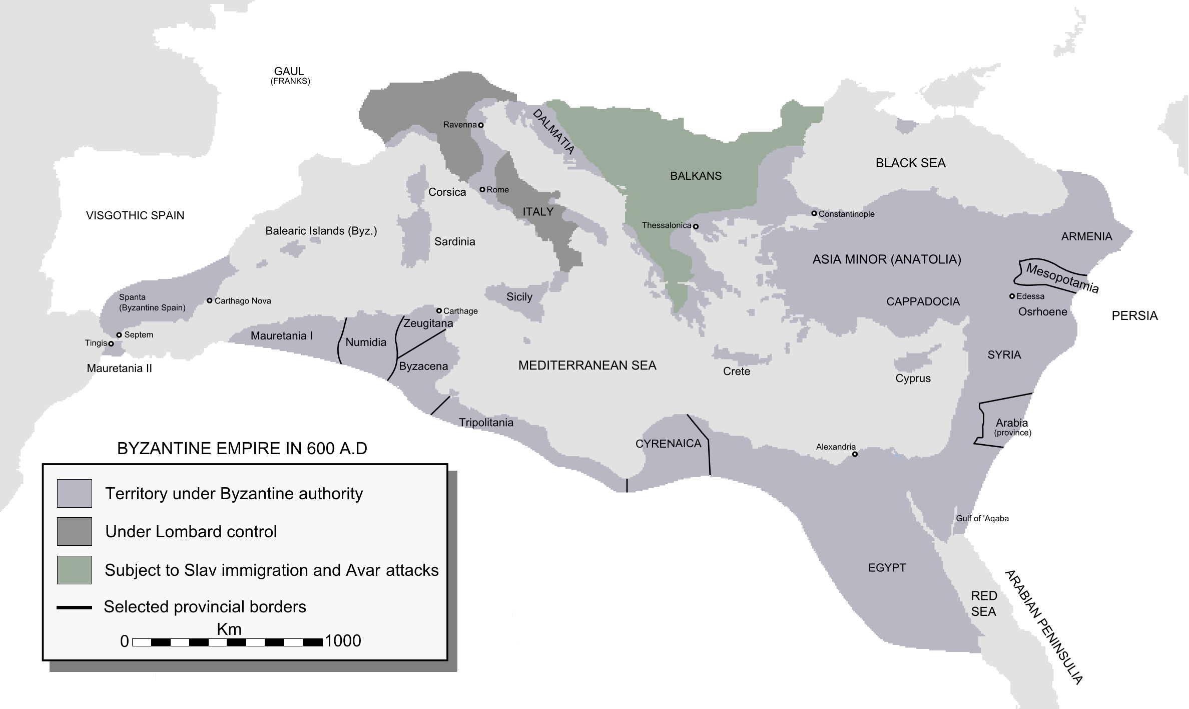 Byzantine Empire in 600.